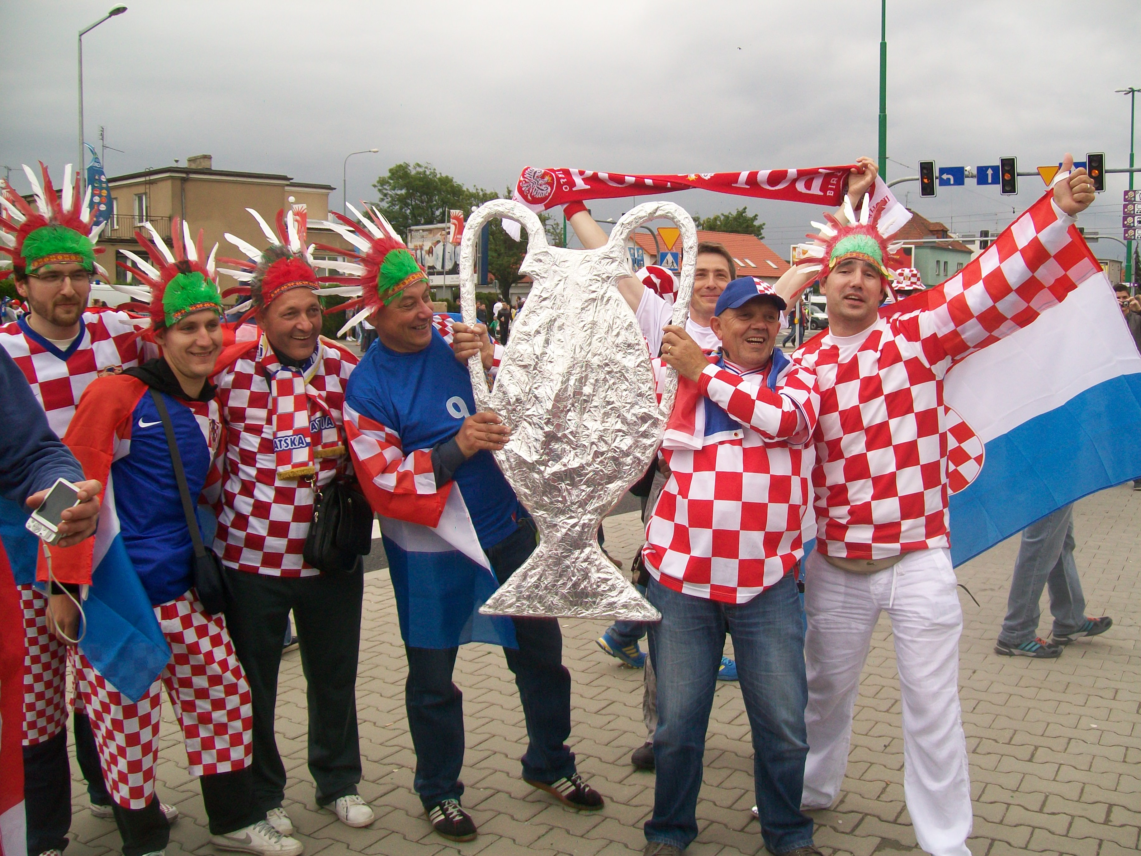 Croatian supporters before Croatia - Italy match during Euro 2012, Poznań, June 14